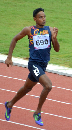 Athletes during 22nd Asian Athletics Championships in Bhubaneswar.